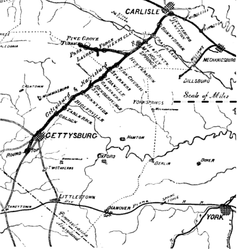 "The Gettysburg and Harrisburg Railroad And Connections"--The G & H RR in 1885 was between Hunter's Run south to Gettysburg and, via its Round Top Branch, Round Top. The railroad's north connection was with the South Mountain RR, which ran between Pine Grove Iron Works and used Gettysburg Junction to connect the Cumberland Valley RR.[1] The south connection (not shown) was at Gettysburg with the east-west Hanover Junction, Hanover & Gettysburg RR. name on map -- subsequent name H & P. Juntn. -- Carlisle Junction Hamton -- Hampton Oxford -- New Oxford Berlin -- East Berlin Spring Forge -- Spring Grove